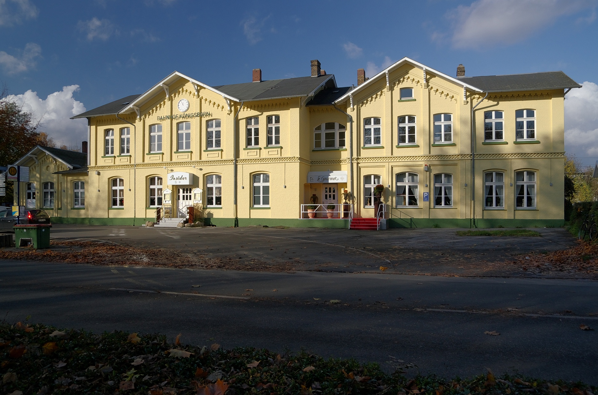 Königsborn station, cultural heritage monument in Unna, Germany